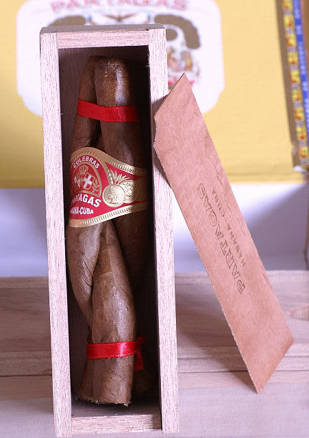 Partagas Culebras